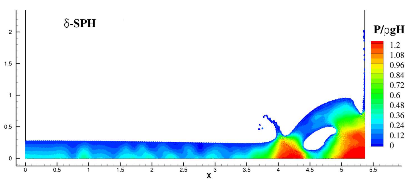 Smoothed Particle Hydrodynamics simulation: pressure fiels of a dam-break flow using standard δ-SPH formulation